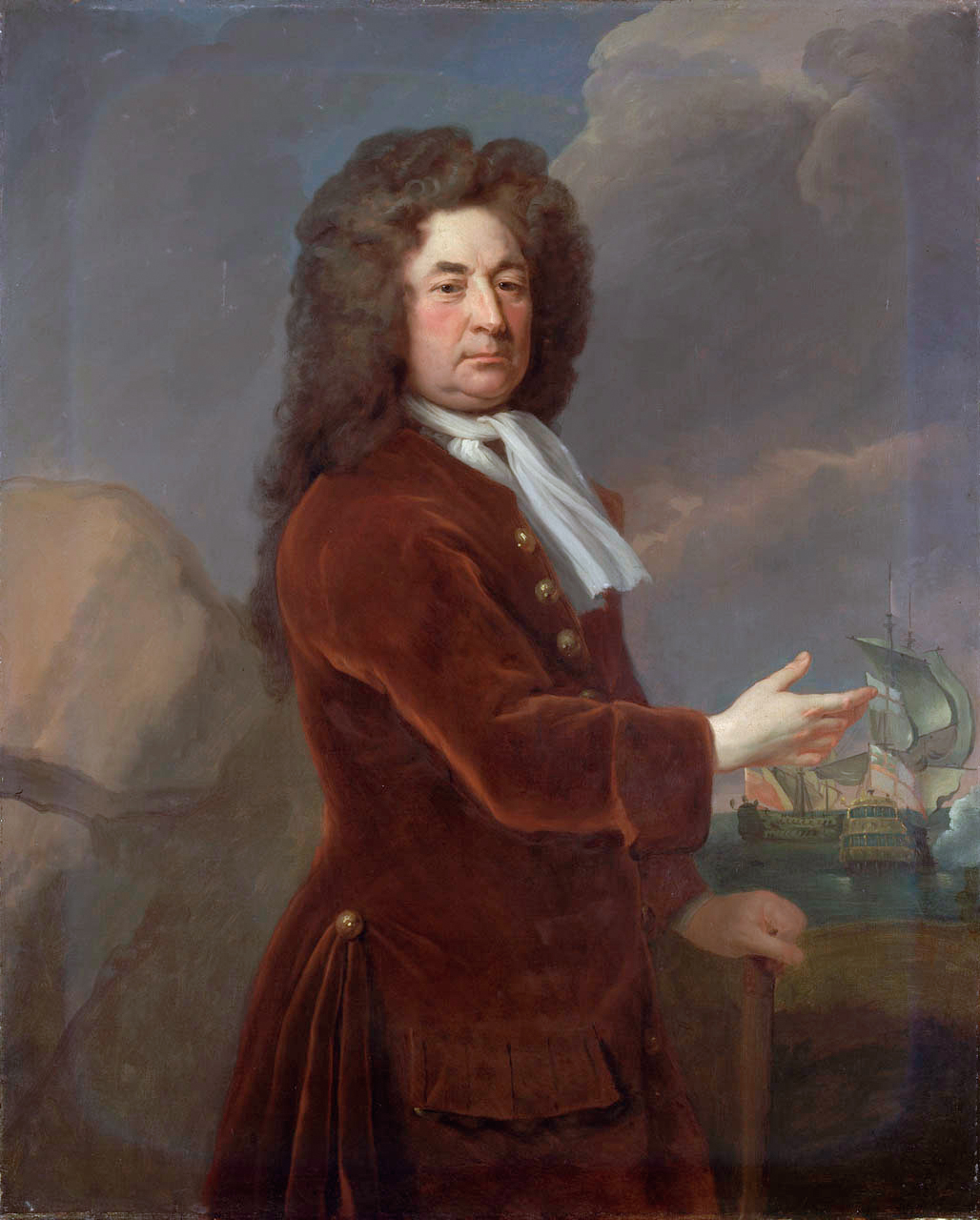 A three-quarter length portrait turned to the right. Rear-Admiral Sir William Whetstone stands with his back to rocks on his left. He wears a brown velvet coat with gold buttons and a dark brown full bottom wig. His left hand rests on a baton and with his right he gestures towards two warships behind him on the right. One of the ships wears his flag as Rear-Admiral of the White. As a junior captain from 1689-91, he convoyed supplies to Ireland for two years. In 1702 he joined Vice-Admiral John Benbow in the West Indies and remained in charge at Jamaica when Benbow sought out a small French squadron expected in the area. When the squadron returned to Port Royal, Whetstone was president of the courts martial which tried the several captains who had conspired against their admiral. He succeeded to the command when Benbow died of his wounds. Prince George promoted him to rear-admiral over the heads of senior captains and he was sent out to the West Indies as Commander-in-Chief in 1705. However his squadron was too weak to be effective against the Spanish fleet. In 1707 he was ordered to convoy some merchantmen bound for the White Sea as far as the Shetland Islands. The enemy squadron he was to protect them against was commanded by the redoubtable corsair le Comte de Forbin. Whetstone exceeded his instructions and continued to convoy the merchantmen well past the Shetlands, but two days after he left them Forbin intercepted the convoy and took 15 ships. Though not to blame, Whetstone was made the scapegoat for this misfortune, and not employed again. The portrait was probably painted in 1707 and was presented to the Greenwich Hospital Collection by George IV in 1824.